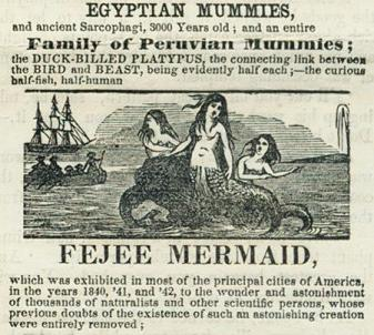 An advert for P.T. Barnum's "Feejee Mermaid" in 1842 or thereabout.